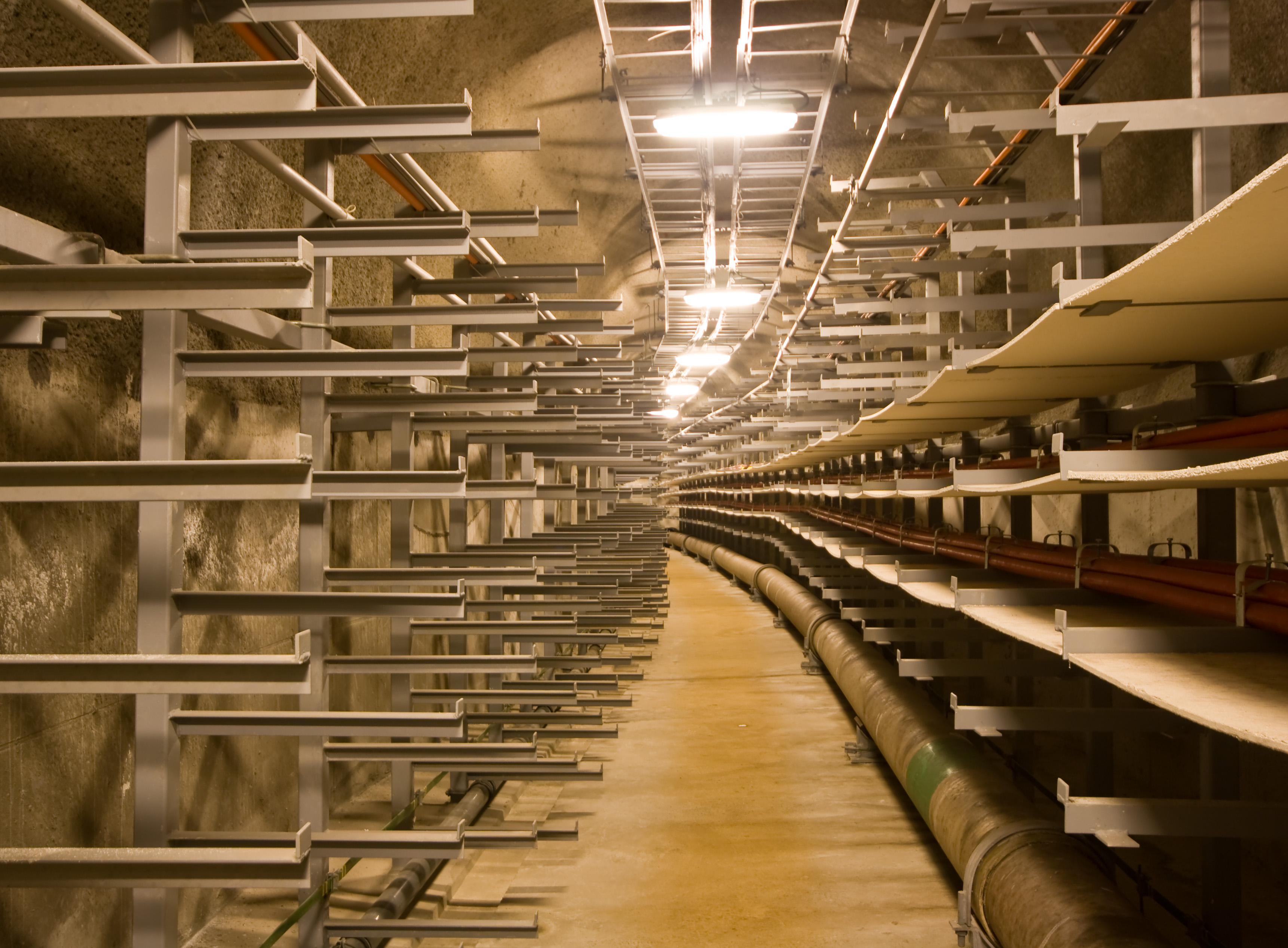 Utility tunnels Prague, Prague Tato série fotografií vznikla za laskavého svolení společnosti Kolektory Praha